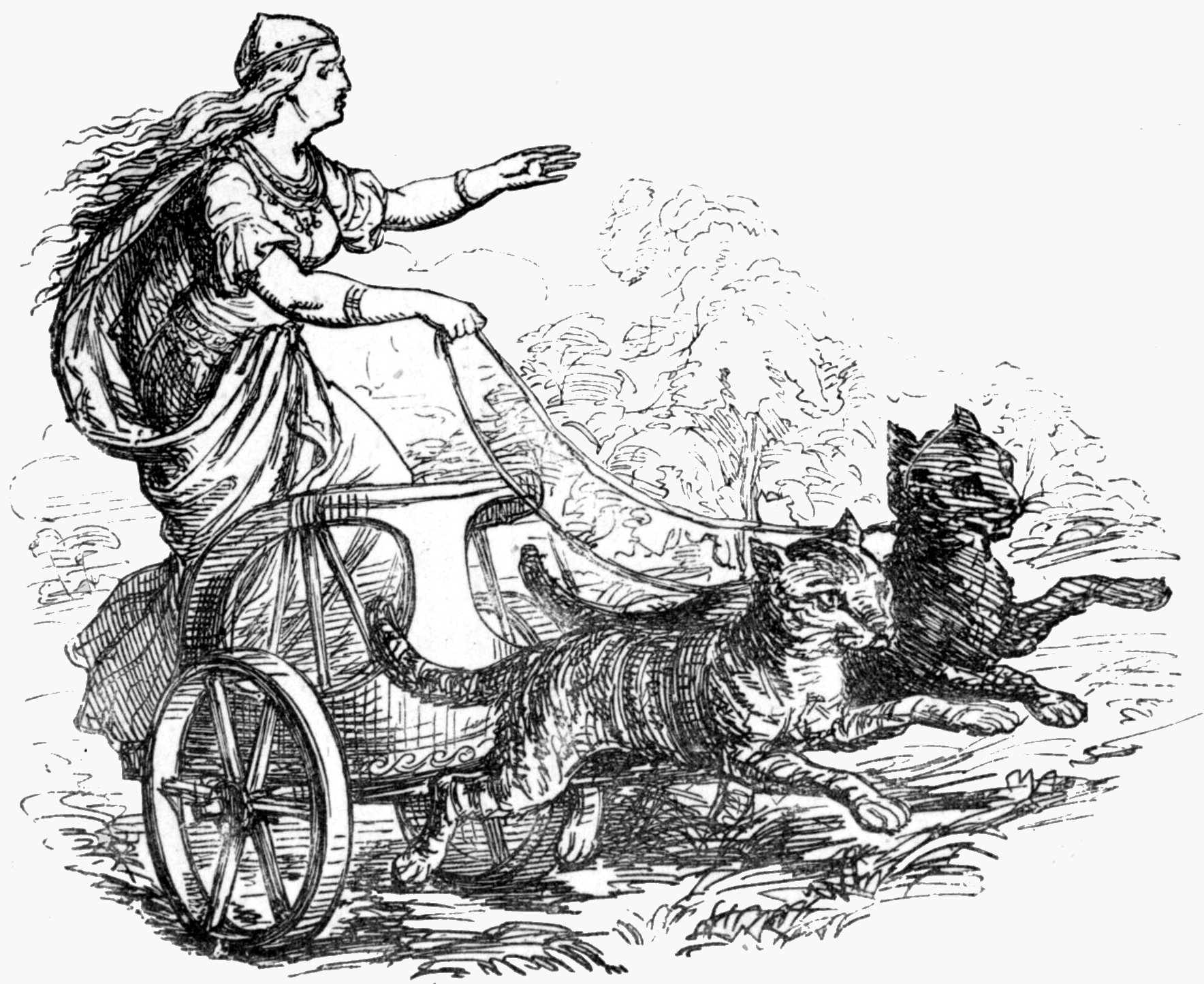 The goddess Freyja, riding in her cat-pulled wagon